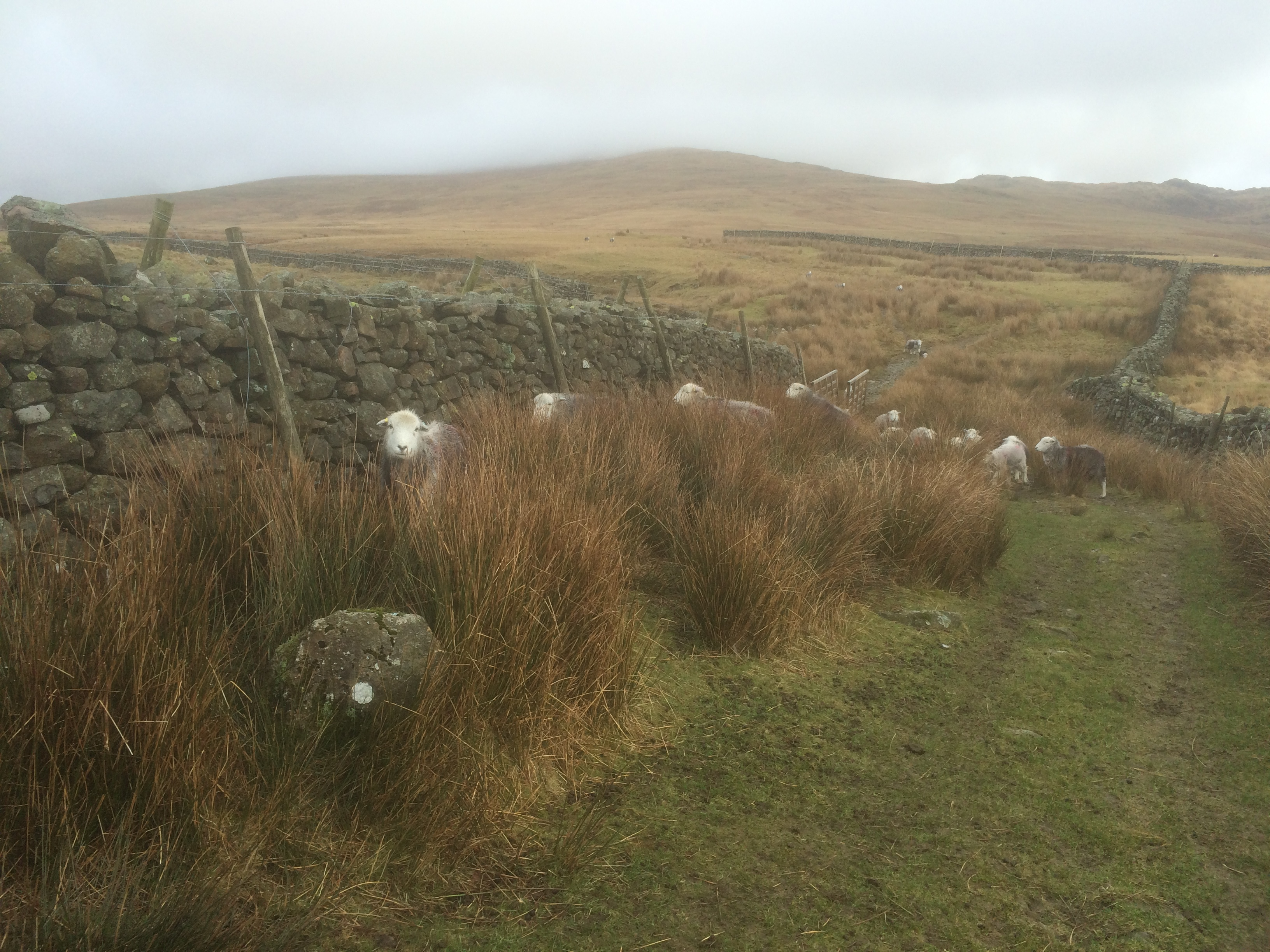 The photograph is of an ancient Bridle Path just before it crosses the river Kid Beck above Yew Tree farm at Nether Wasdale Cumbria